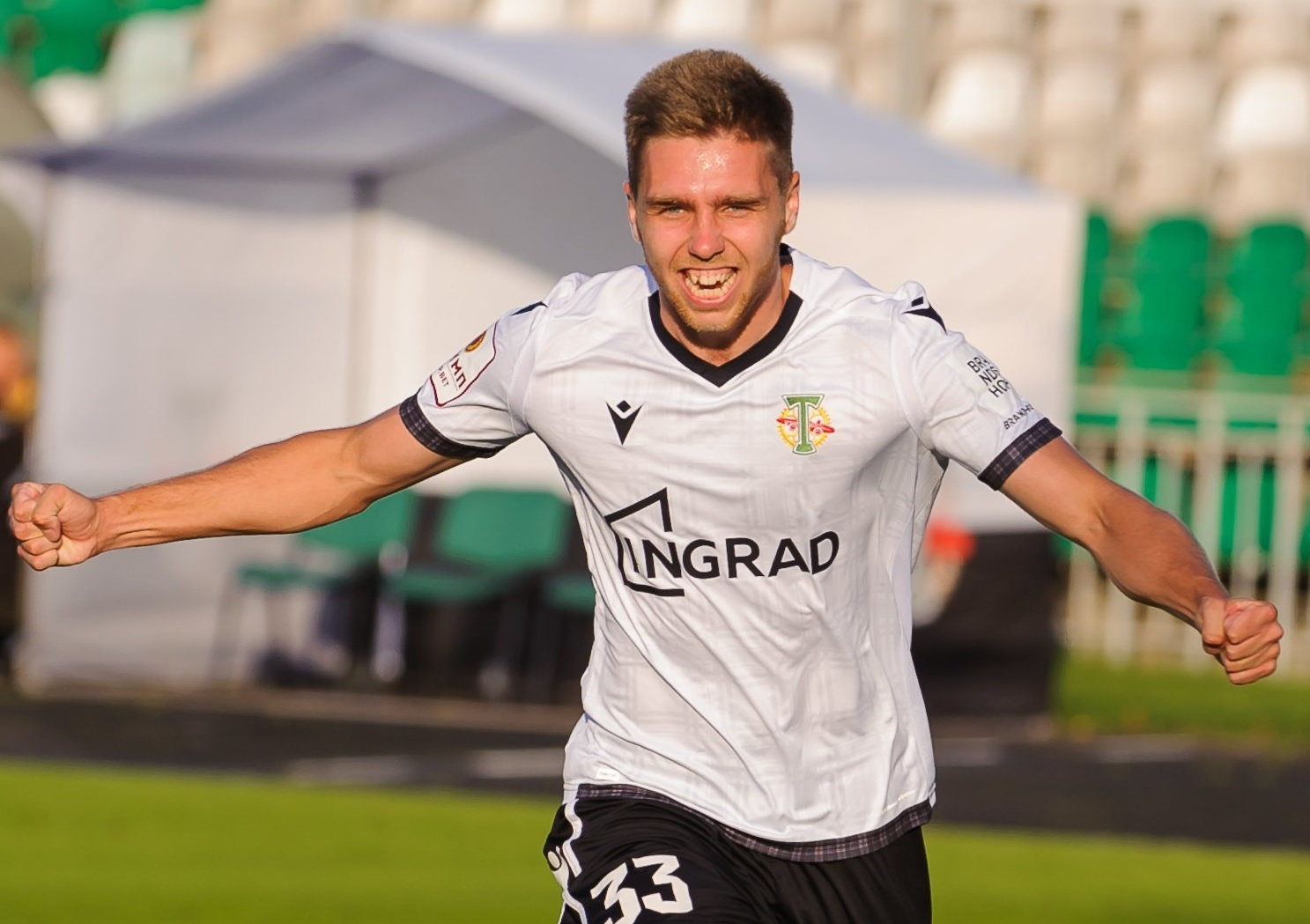 Ivan Sergeyev with FC Torpedo Moscow in a game against FC Yenisey Krasnoyarsk.